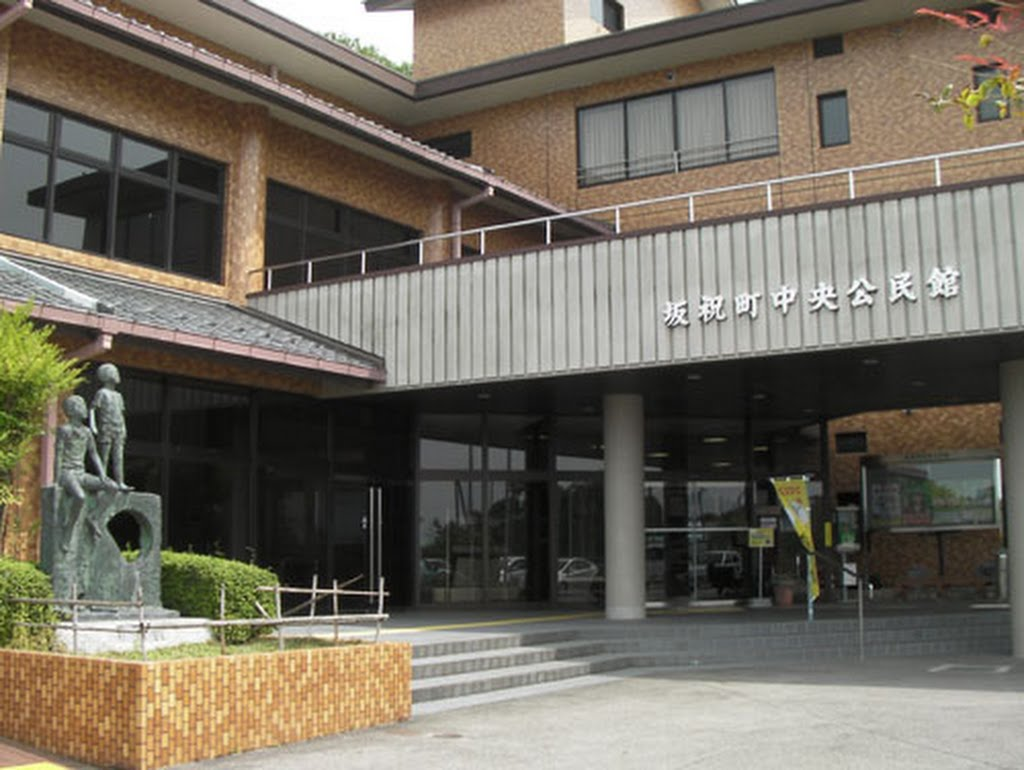 This is Sakahogi Town Central Community Center in Sakahogi, Gifu, Japan.